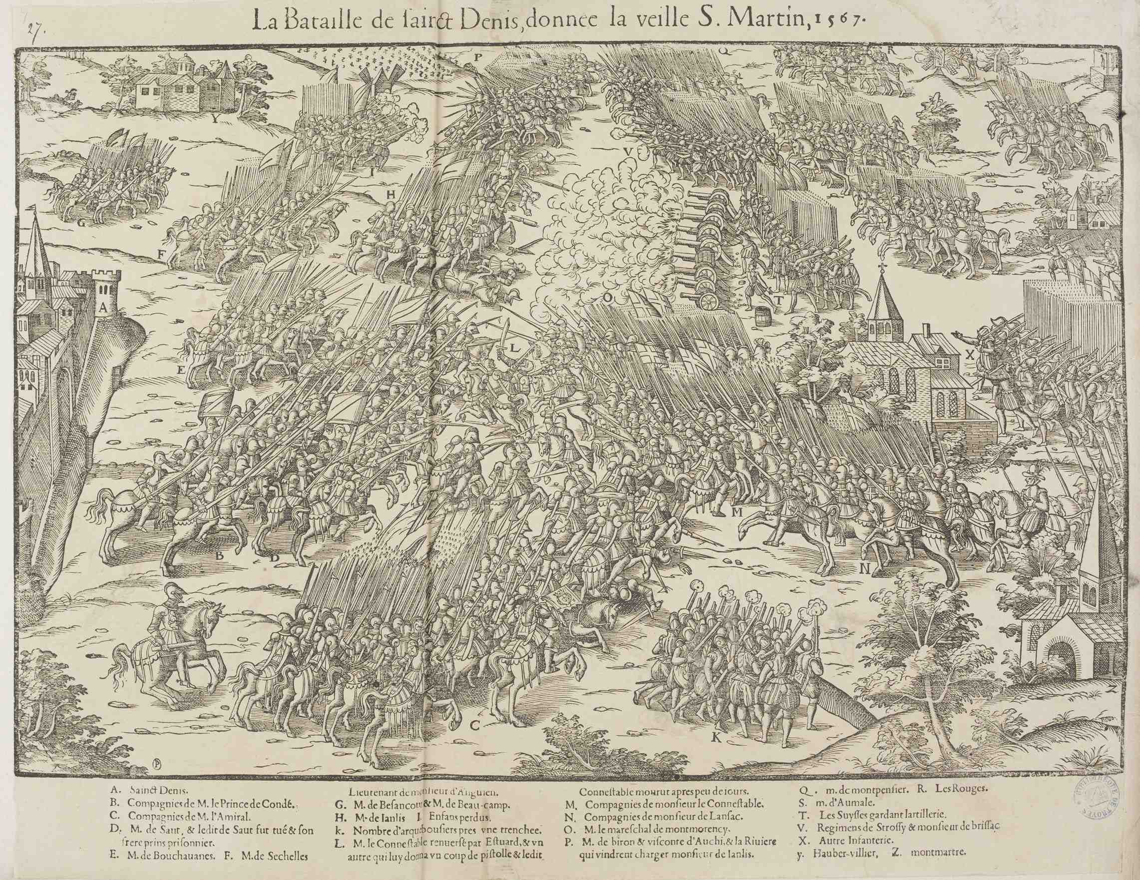 Battle of St Denis, French Religious Wars, 10 November 1567 (1570).